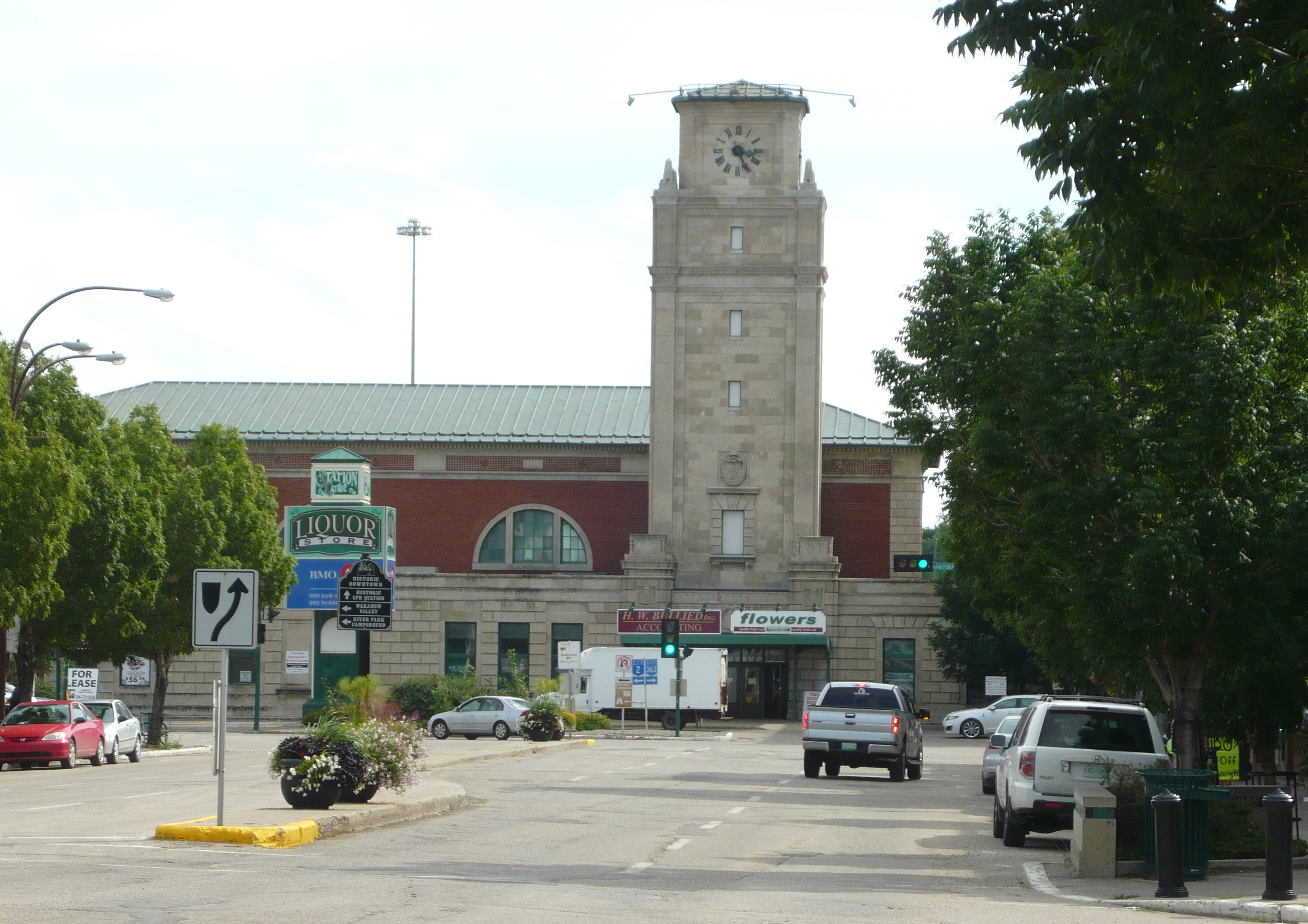 Former Canadian Pacific Railroad Station (now liquor store), 5 Manitoba Street at Main Street North, Moose Jaw, Saskatchewan, Canada. Built 1920-22. Architect: Hugh G. Jones. Also known as "Station Centre" and "Old CPR Station". Canadian Register of Historic Places.